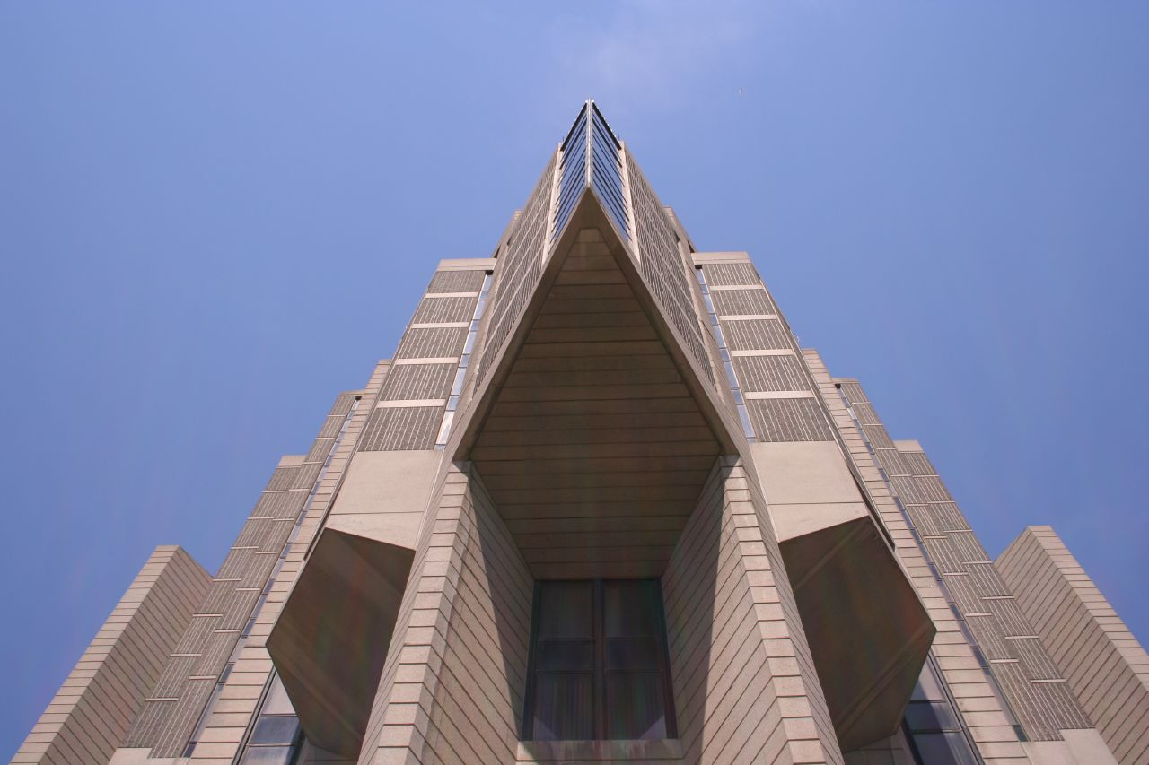 Robarts Library, Toronto, Canada